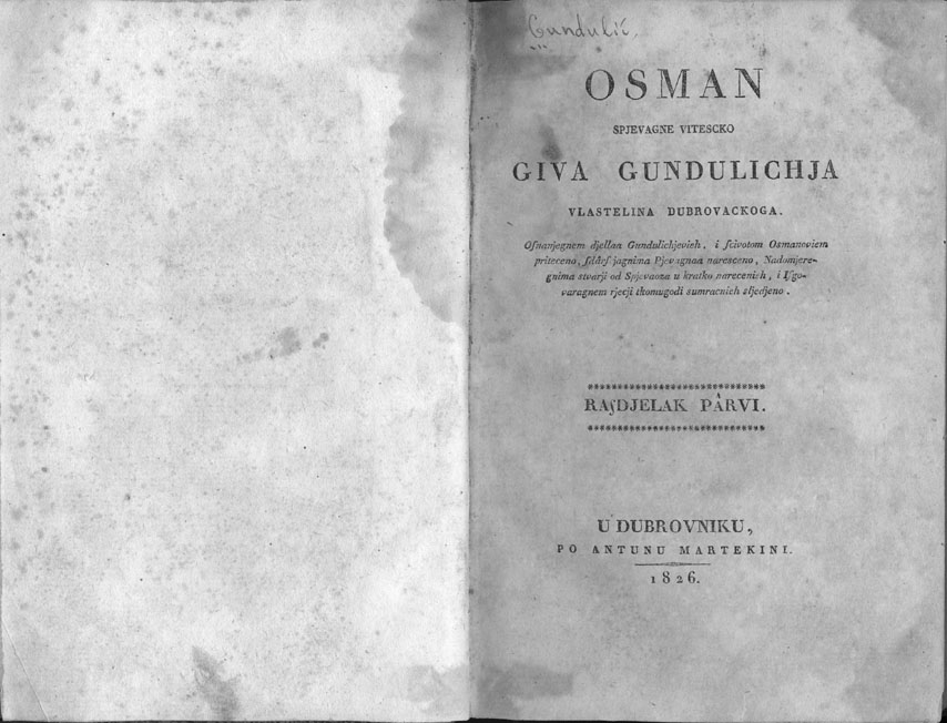 Cover of Osman from 1826., written by Ivan Gundulić